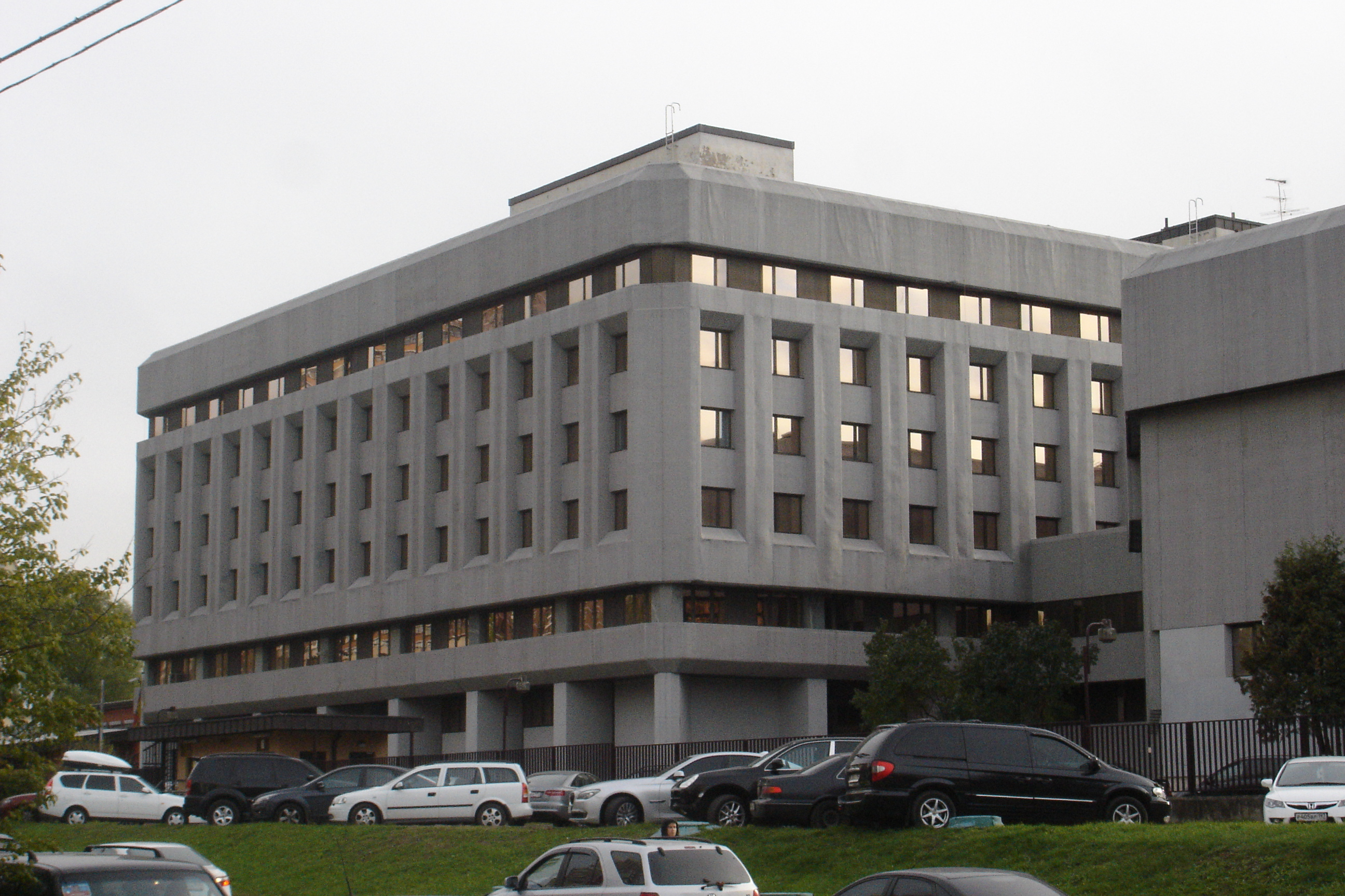 Consulate of Germany in Moscow, Goethe-Institut